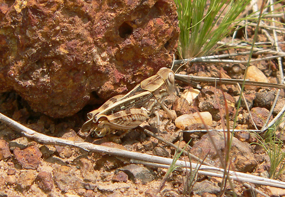 Female of Acorypha onerosa grasshopper taken by Christiaan Kooyman near Alfakouara, Benin, on 28 August 2005.